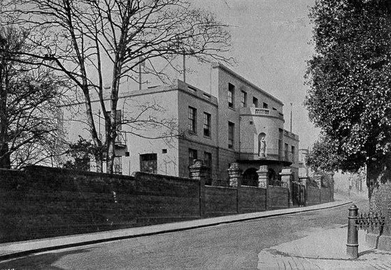 Old photograph of Townley House, Ramsgate, architect Mary Townley. Caption reads "Principals: Miss Kennett, Miss Mole, A.C.P."